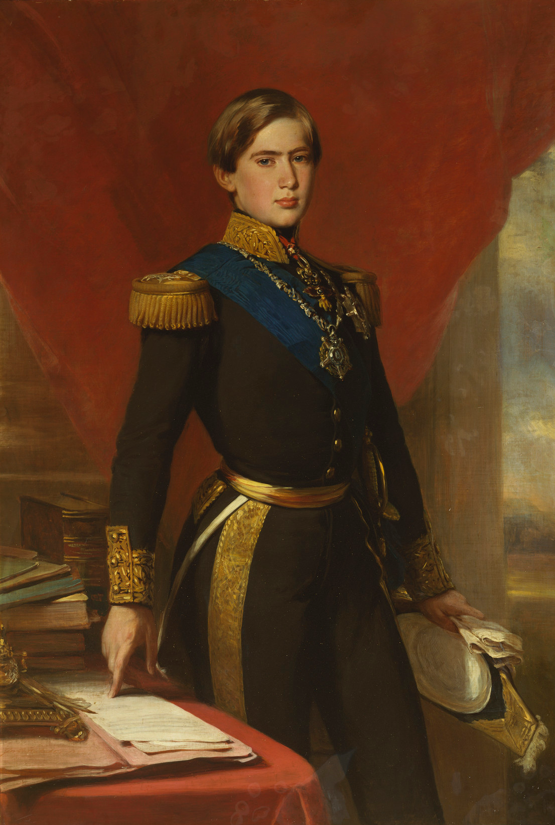 Portrait of Pedro V, King of Portugal